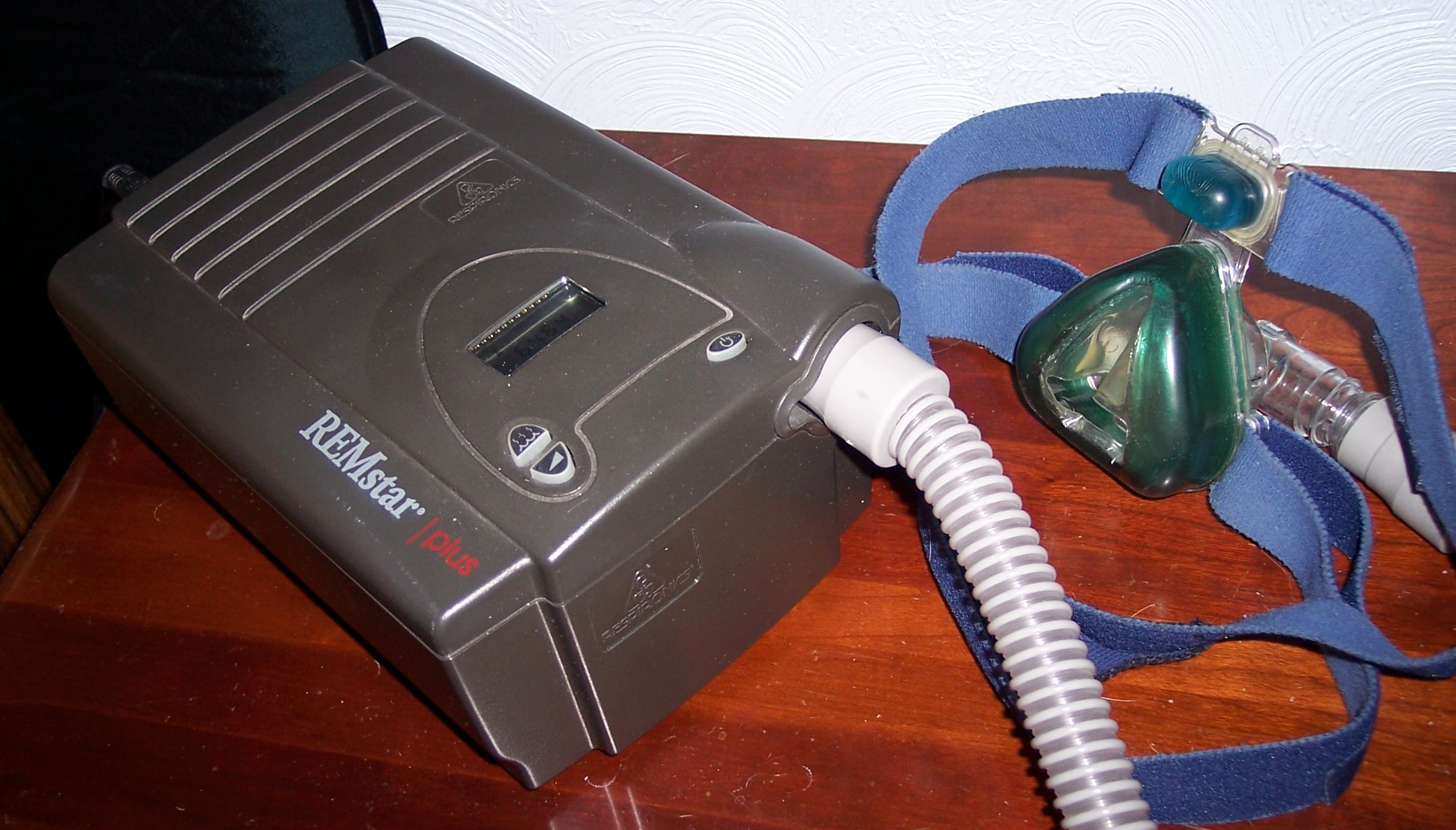 This is my own machine of which I took the picture.